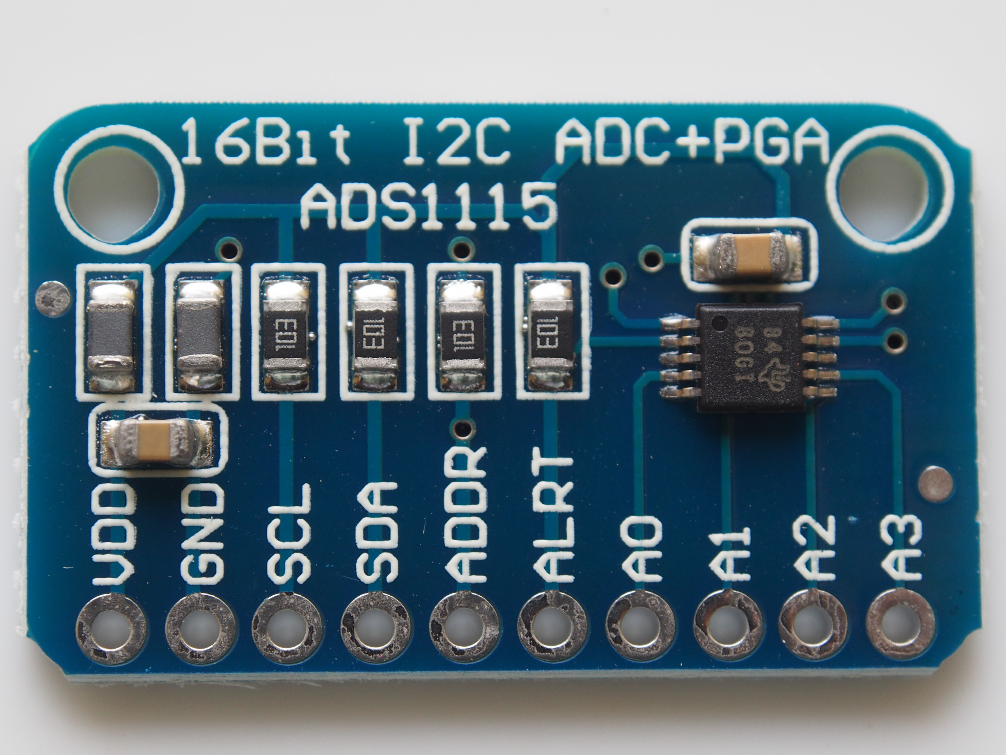 16bit ADC Card with I2C Interface